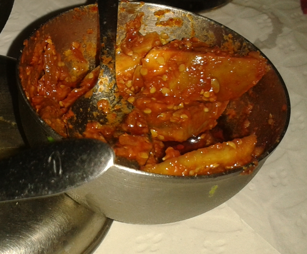 Goan achar in Lisbon.